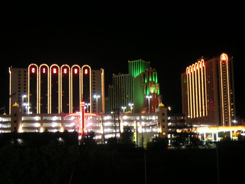 Reno – Circus Circus and Silver Legacy casinos